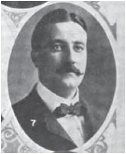 Thomas P. Barnett, American impressionist painter and architect, in 1904